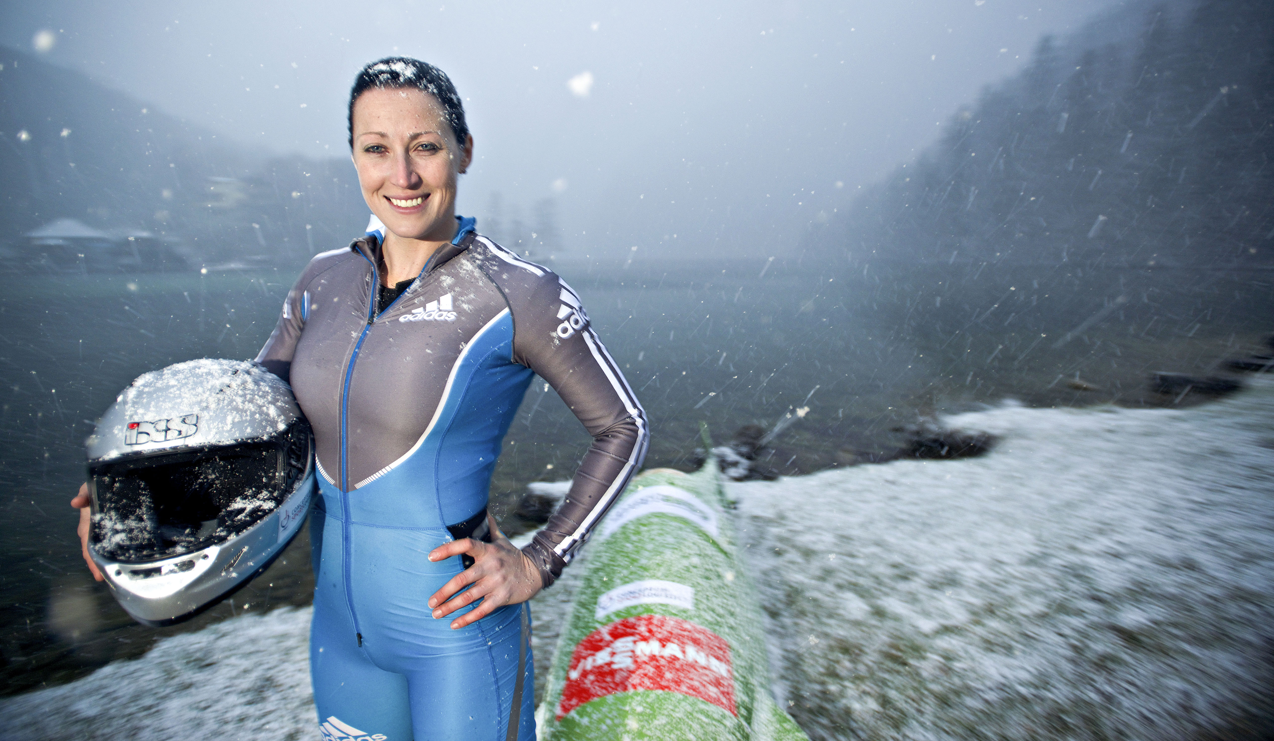 Australian athlete, Jana Pittman-Rawlinson who specialises in the 400 metres run and 400 metre hurdles events. She is a two-time world champion in the 400 m hurdles, from 2003 and 2007. She also won the gold medal in this event at the 2002 and 2006 Commonwealth Games and was part of Australia's winning 4 × 400 metres relay teams at both events. Today Jana has decided to turn her sporting skills to Championship Bobsleighing with sleigh pilot partner Astrid Radjenovic. Picture shows Jana during the championship today, Konigssee, Germany.